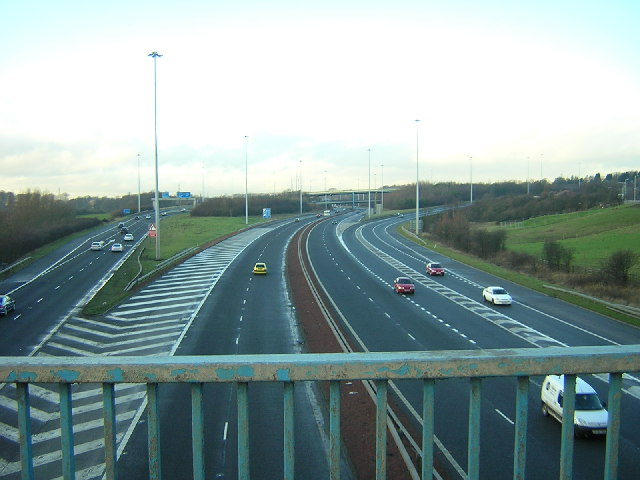 Maryville Interchange - M73, M74